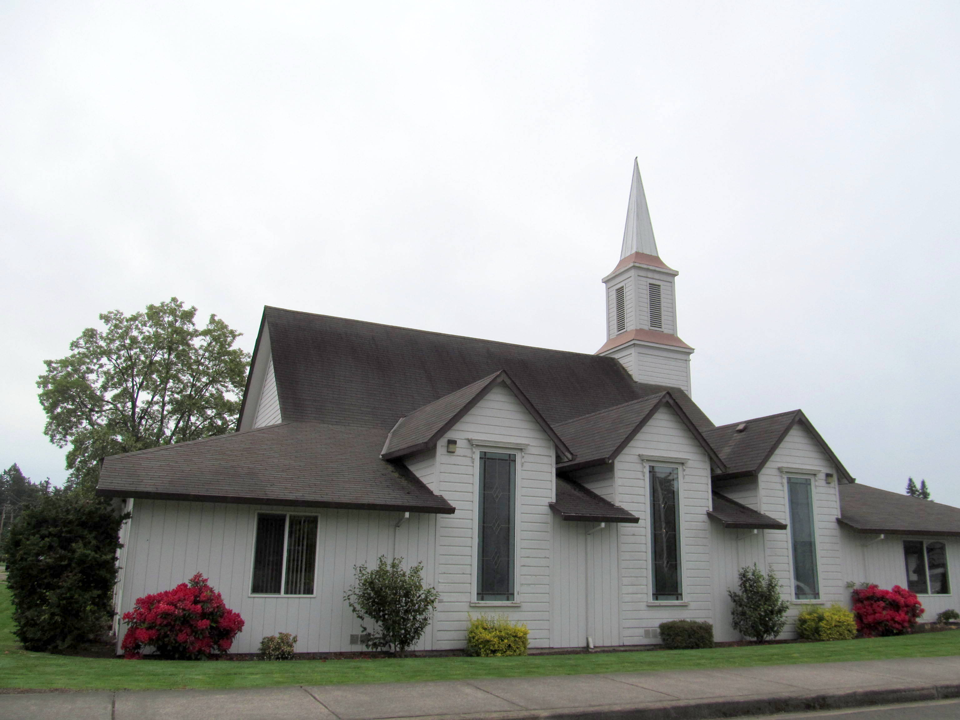 The current Dayton Christian Church building in Dayton, Oregon, United States, sits on the site of and incorporates a number of architectural and structural elements (note the windows and steeple) of the historic Evangelical United Brethren Church. The historic church was built in 1883-1887, and is listed on the US National Register of Historic Places.